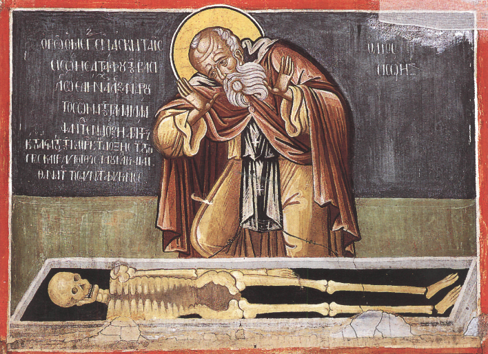 Rev. Sisoy at the tomb of Alexander of Macedon. Varlaam monastery, Meteora, Greece